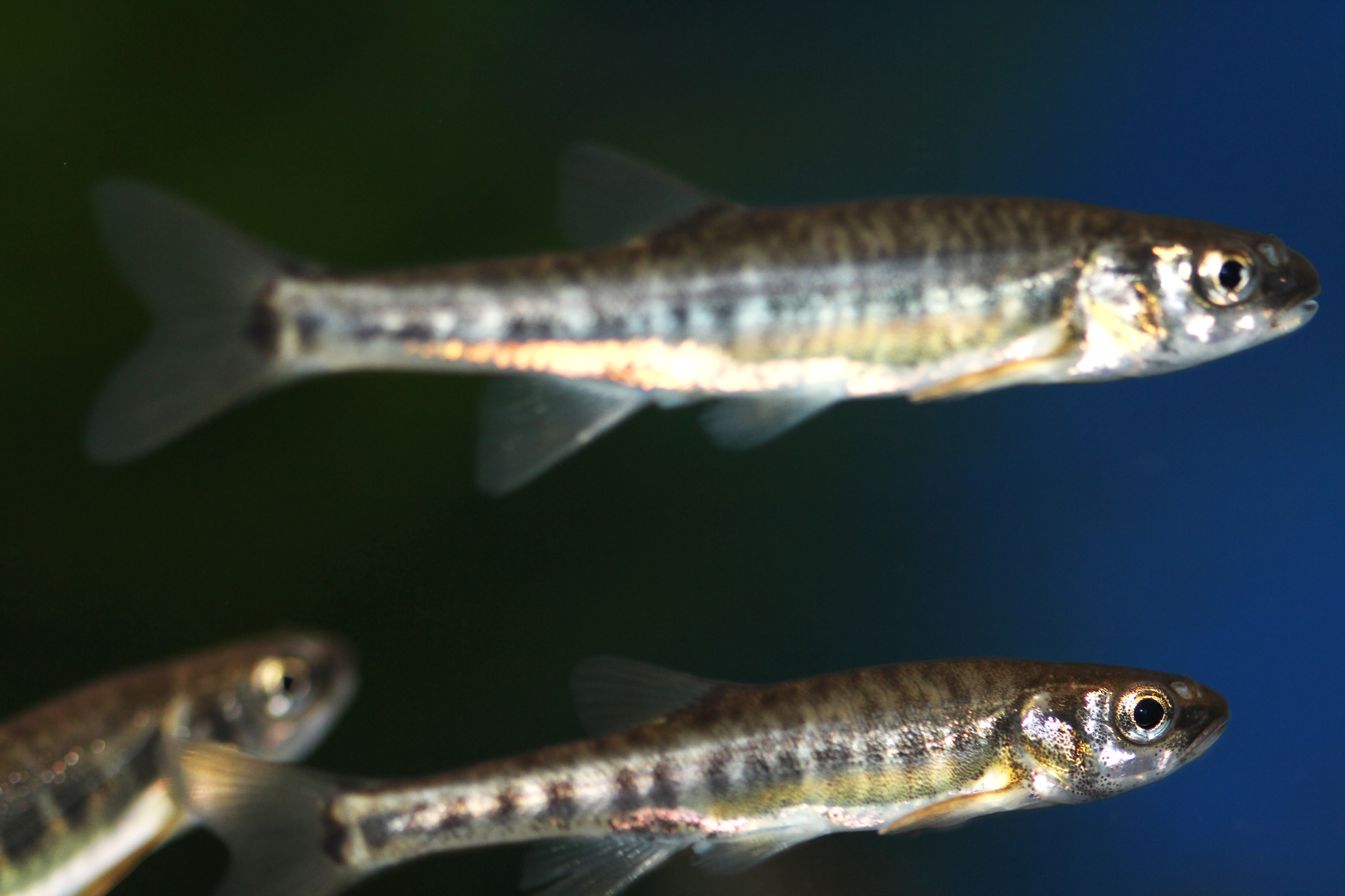 Fish Phoxinus phoxinus on exhibition Subaqueous Vltava, Prague 2011, Czech Republic